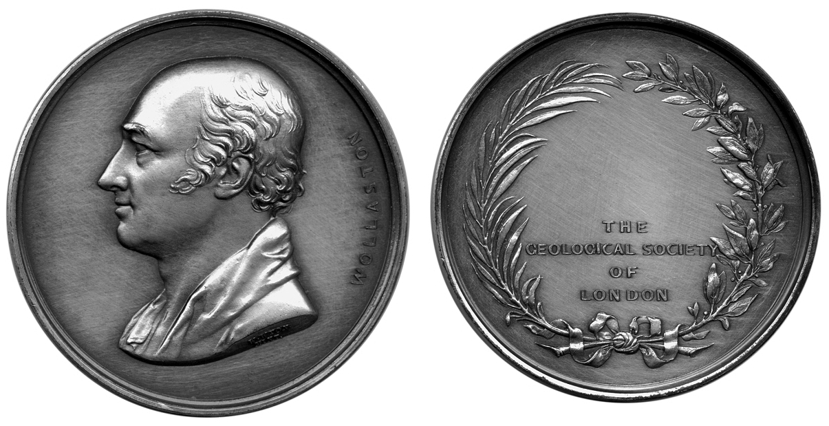 The Wollaston Medal. GSL, 1832